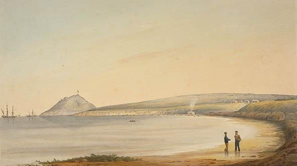 View of Cos' [i.e. Company's] fishing station and Cape Rosetta, Encounter Bay, South Australia, taken from the beach